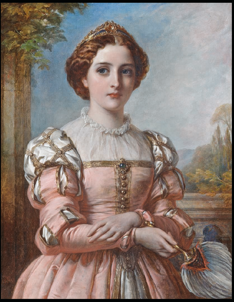 Beatrice by THOMAS FRANCIS DICKSEE (1819-1895)